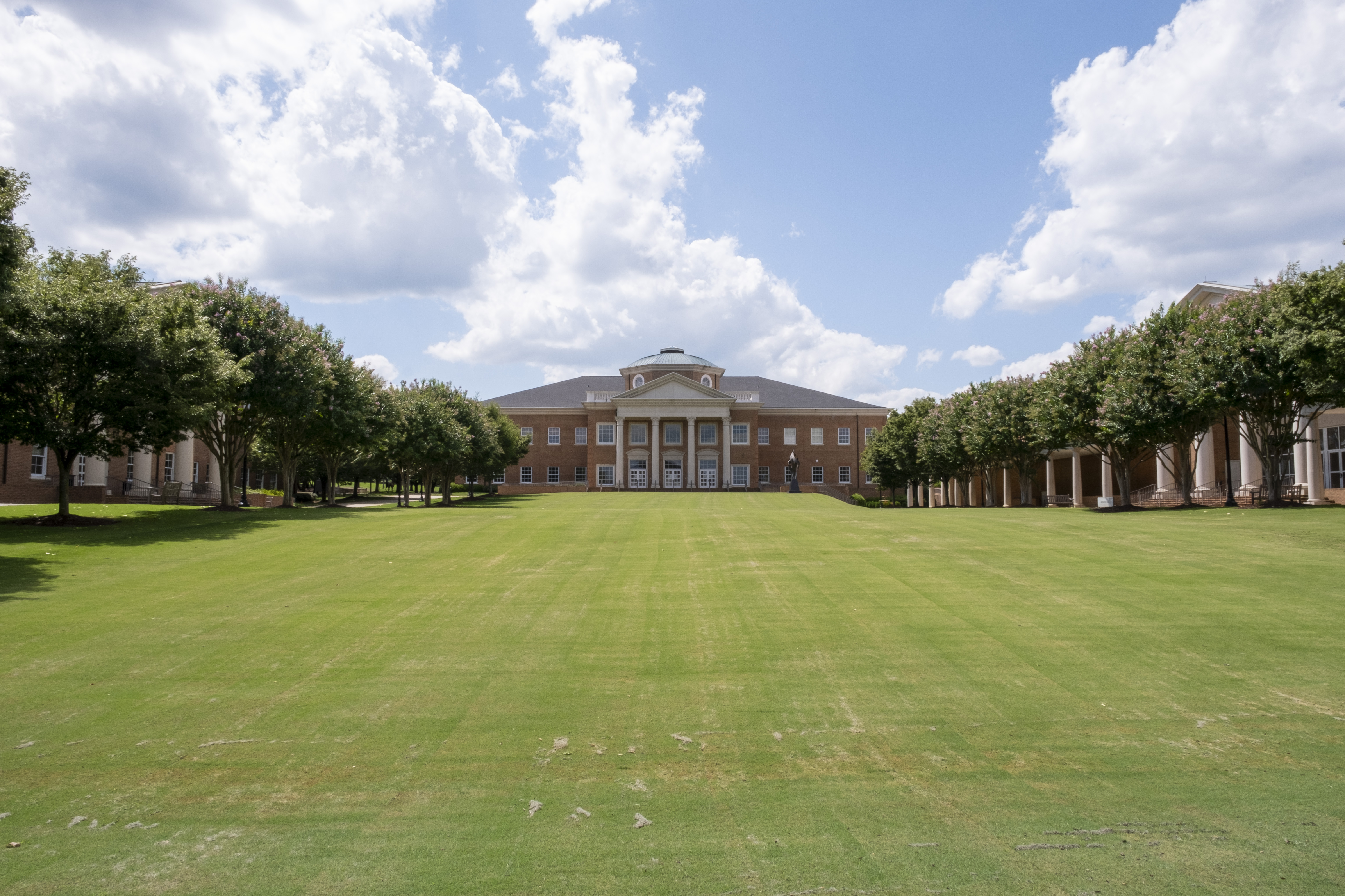 View of Cary Academy's main quad between the administrative building (center), Upper School (left) and Berger Arts Hall (right).